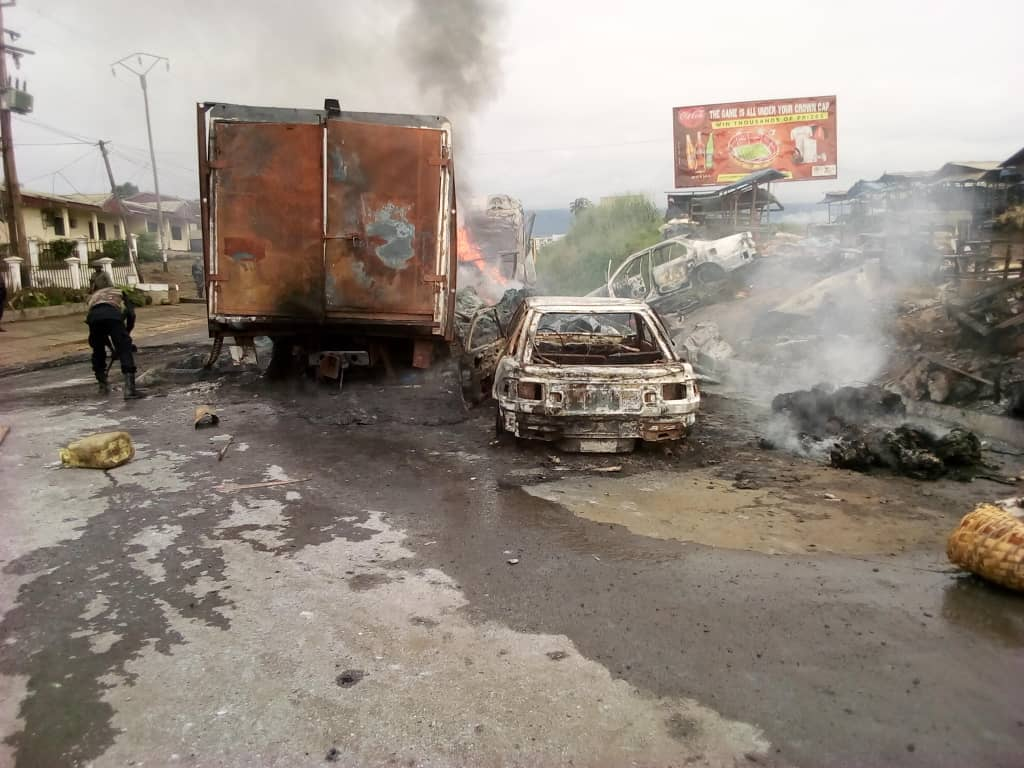 Scorched vehicles left following clashes in the Mile 16 neighborhood of Buea